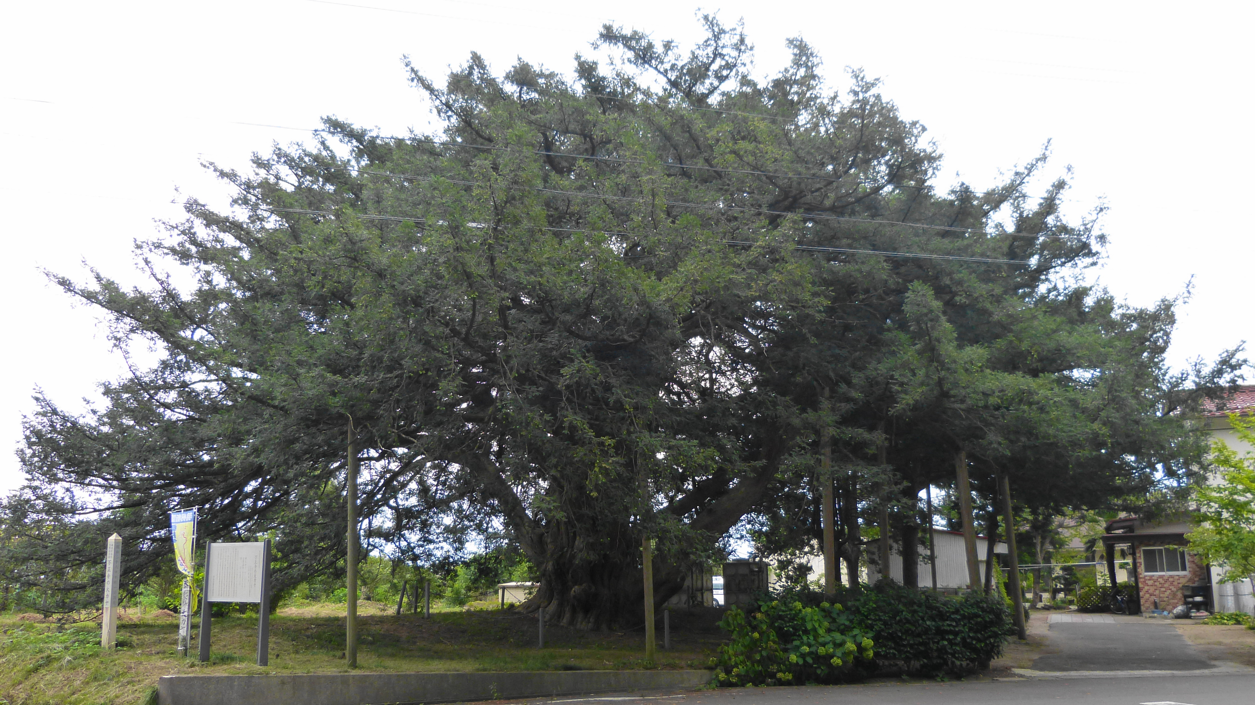 Mansyoji no Okaya,Fukushima prefecture, Japan